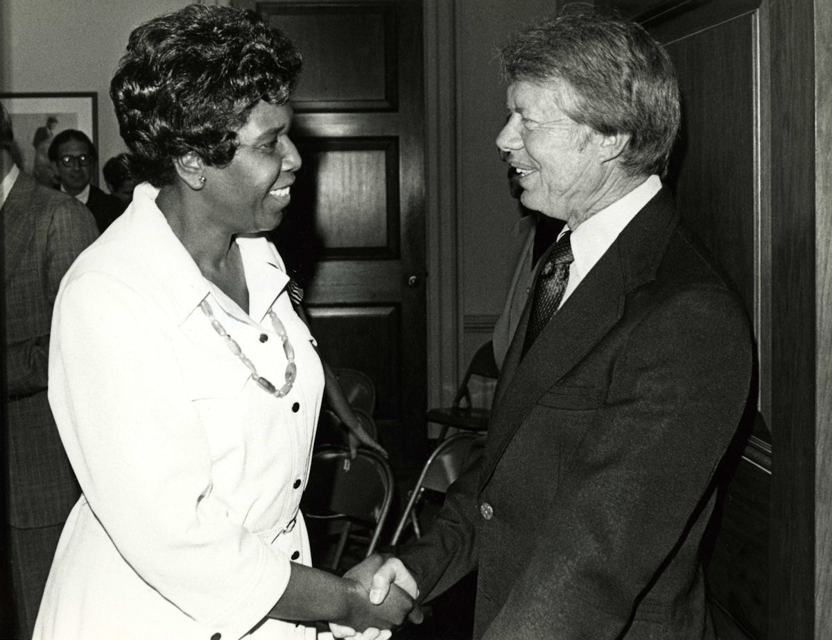 President Jimmy Carter and Representative Barbara Jordan